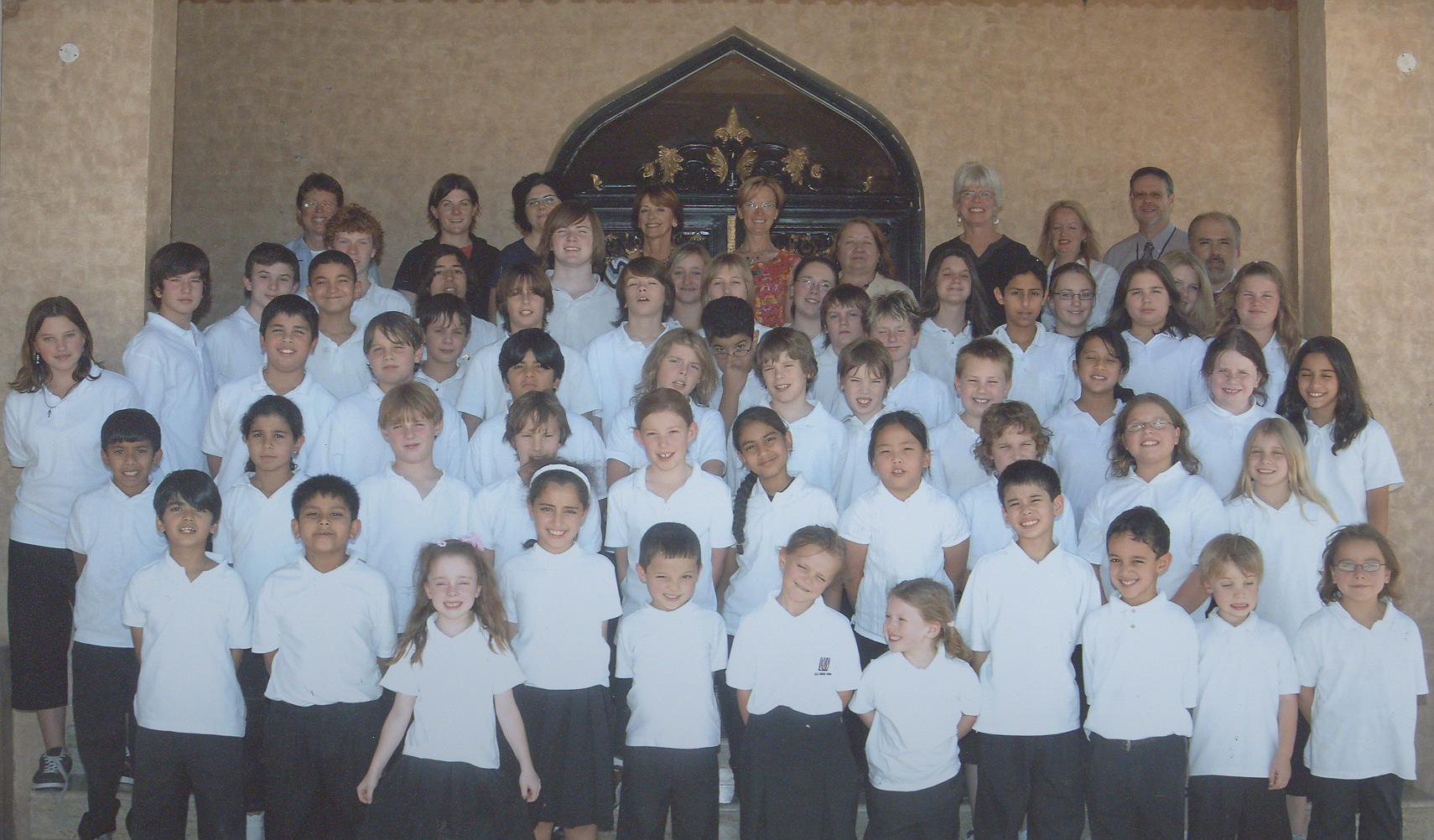 First Group of Students at Qatar Canadian School